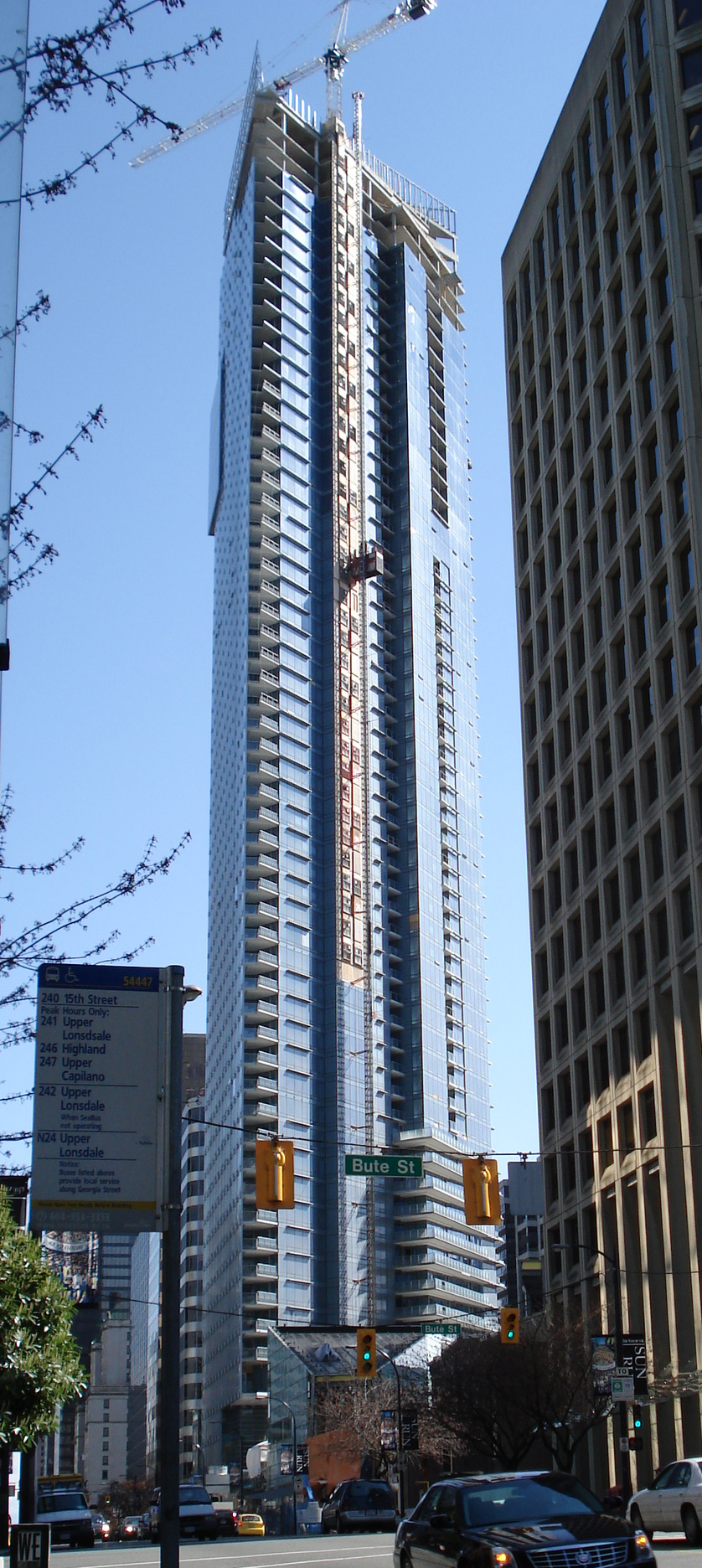 Image of Living Shangri-La under construction in April 2008